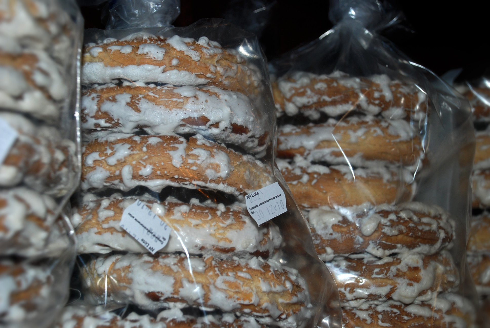 Food in the province of Palencia: bath doughnuts elaborated in Villalcázar de Sirga (Palencia, Castile and León).